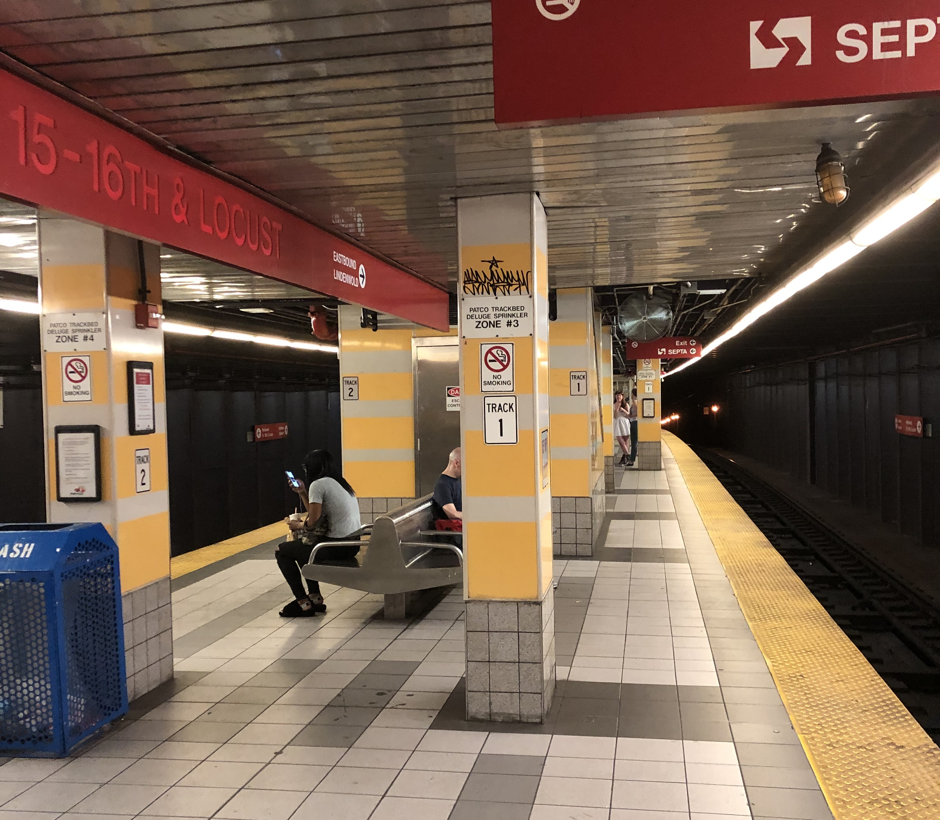 15-16 Locust